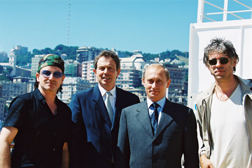 THE M/S EUROPEAN VISION, GENOA. President Vladimir Putin with British Prime Minister Tony Blair during a meeting with the leader of the Irish rock group U2, Bono, and Irish musician Bob Geldof.